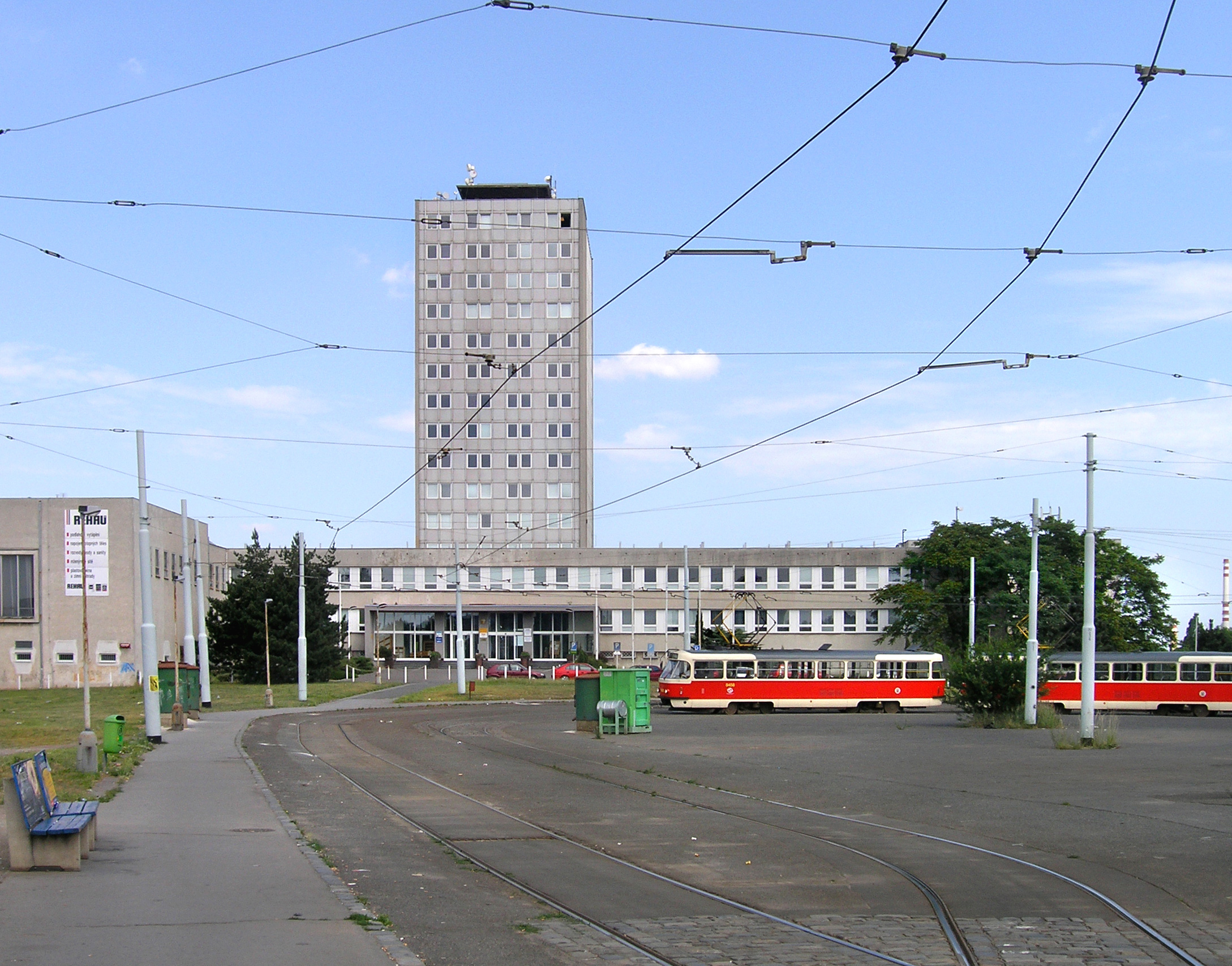 Tram loop and Constructional secondary school at local part Jarov at Hrdlořezy, Prague